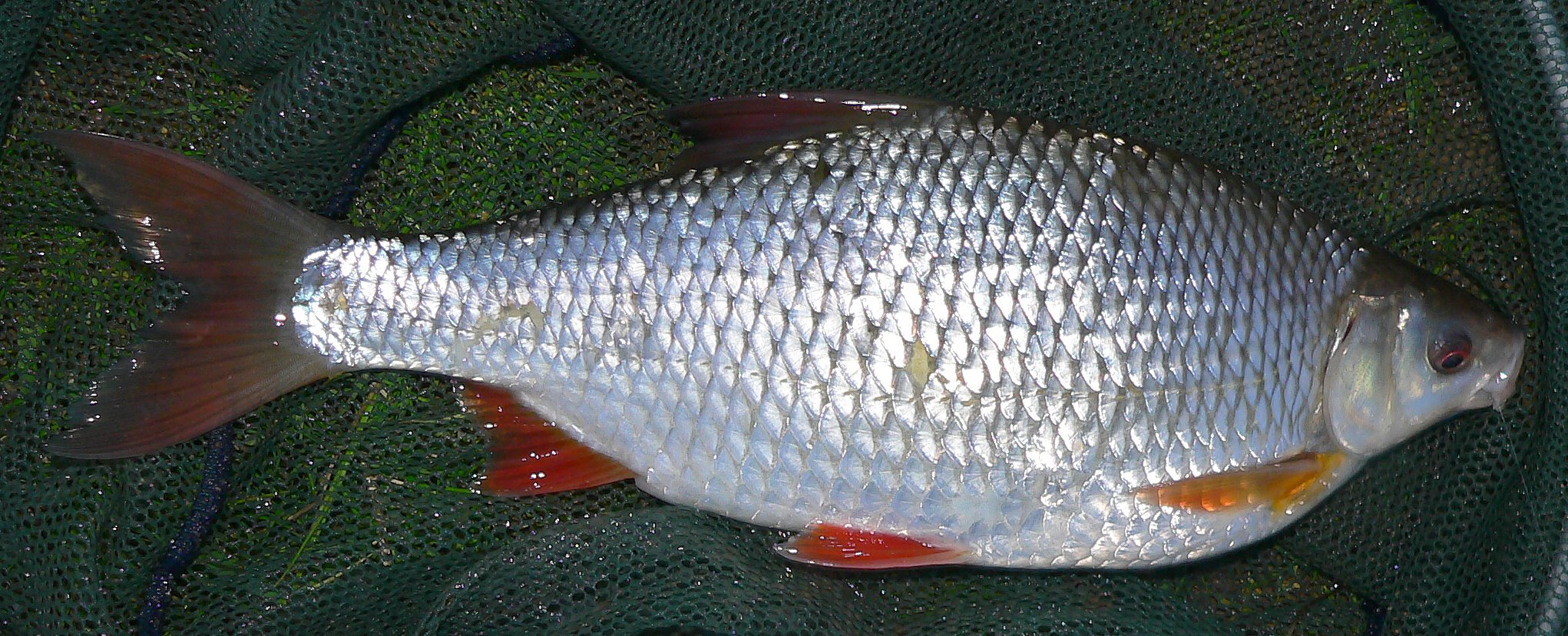 Common Roach (Rutilus rutilus) length 38 cm from the Nederrijn at Arnhem, the Netherlands, Note the red eye shiny blueish color and the number of scales between ventral and anal fin (5).